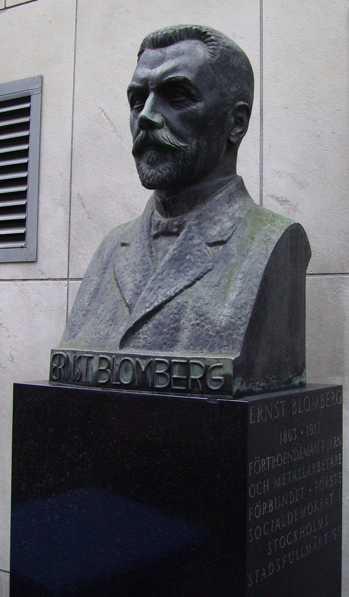 Picture of statue of Ernst Blomberg in Stockholm. The text reads: "Confidant in the Iron and Metal Workers' Union. First Social Democrat in Stockholm's City Council." The bust is sculpted by Anders Jönsson in 1956 and stands at the entrance to IF Metall's federal office on Olof Palmes gata 11 in Stockholm.